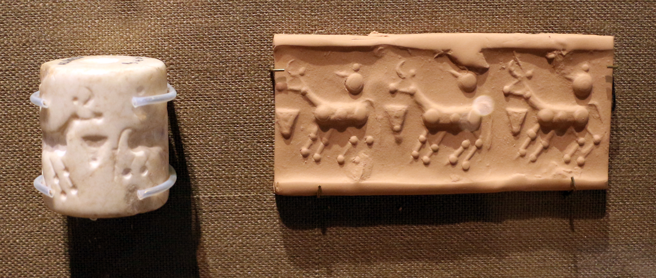 Mesopotamian antiquities in the Oriental Institute Museum